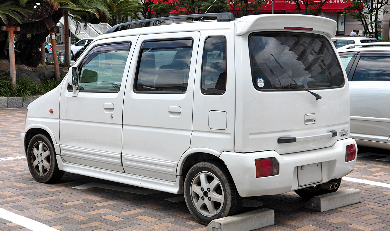 First generation Suzuki Wagon R Wide 1.0 Turbo ( Japan spec Wagon R+ )